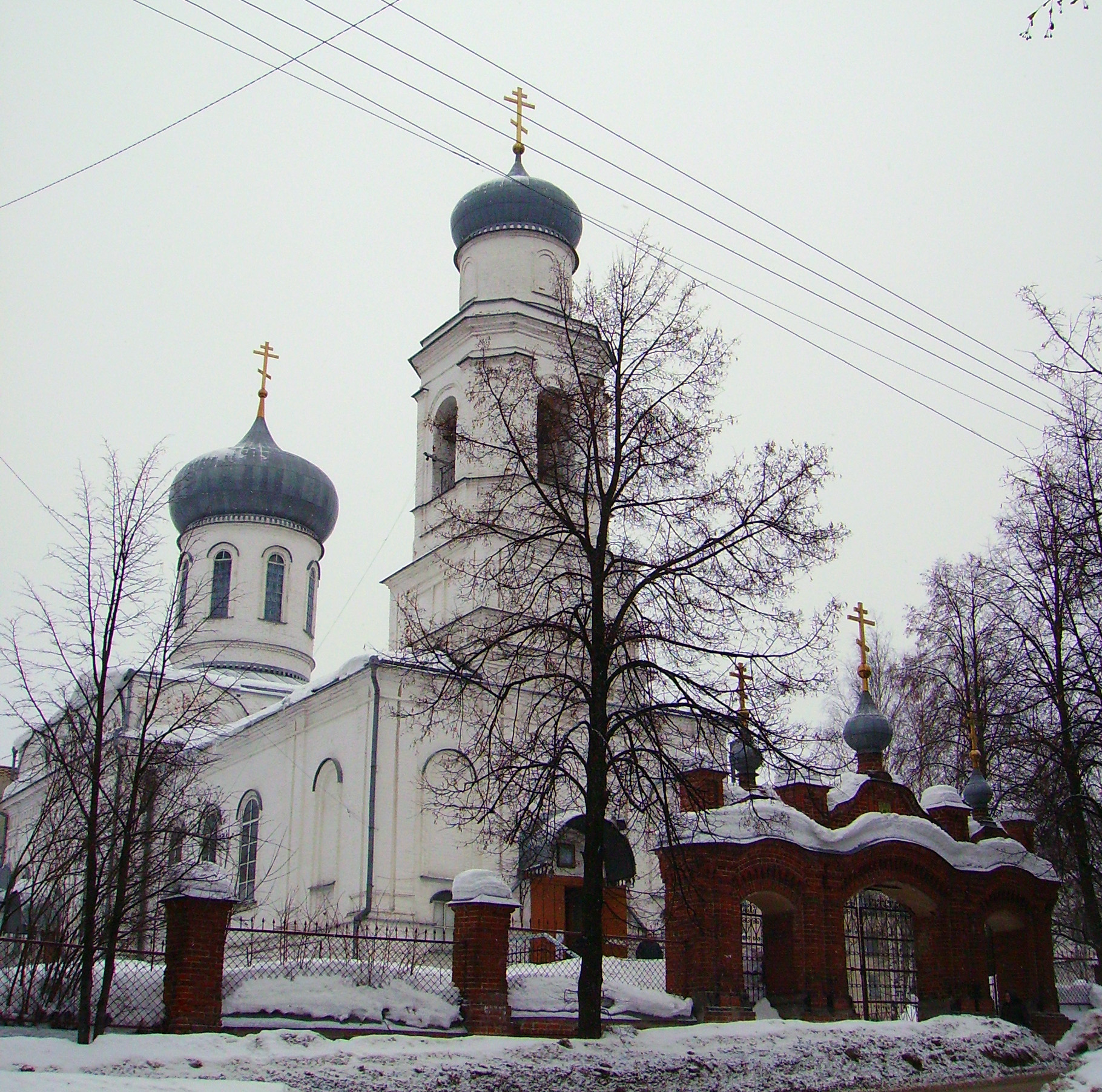 All Saints Church